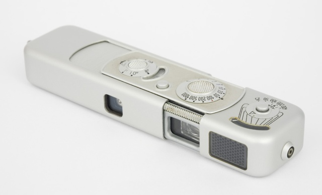 Minox A sub-miniature camera. (Photo by Oleg Volk)